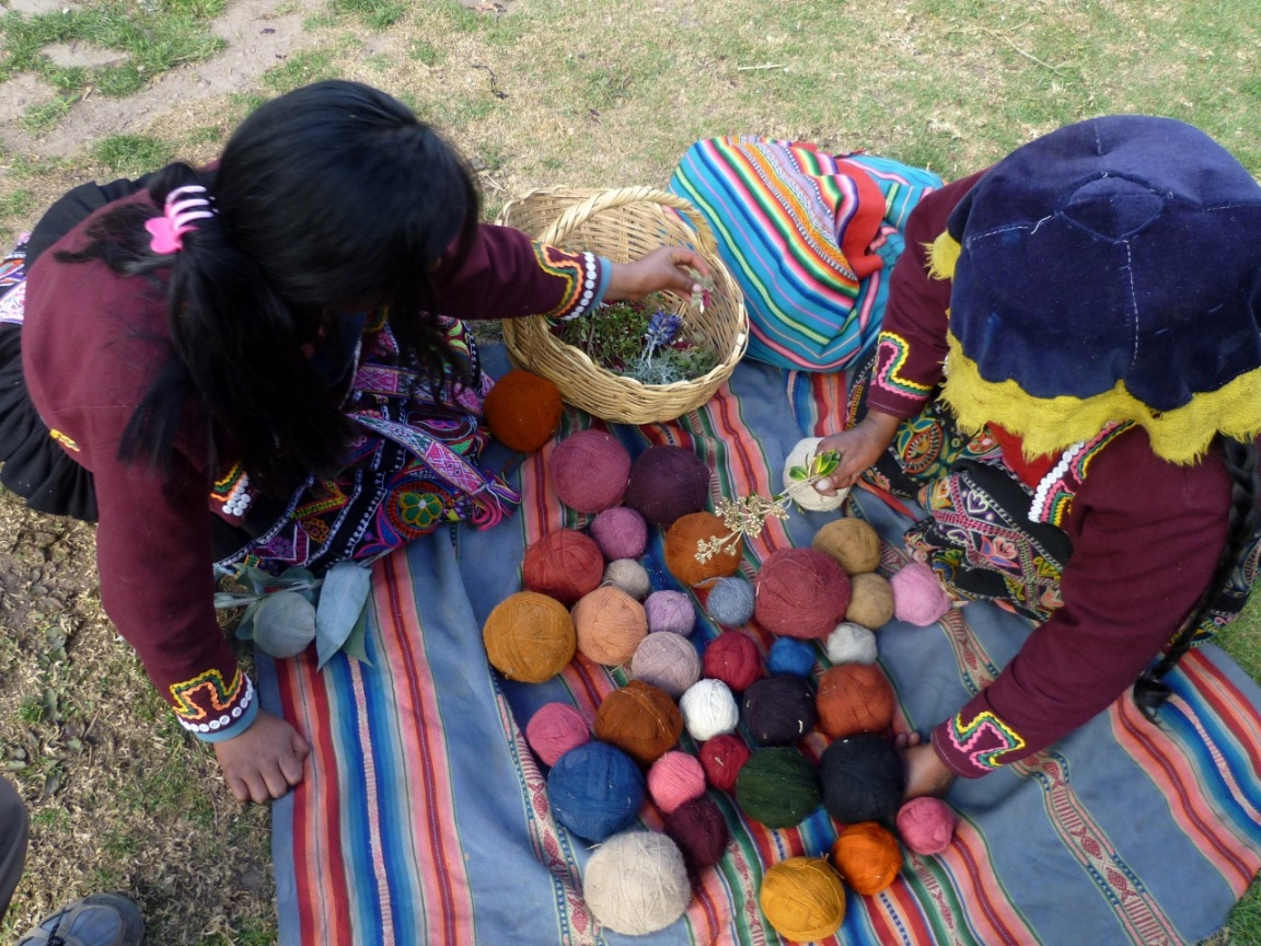 Photo by H. Hoffmann, Rotaria del Peru, received Aug. 2010